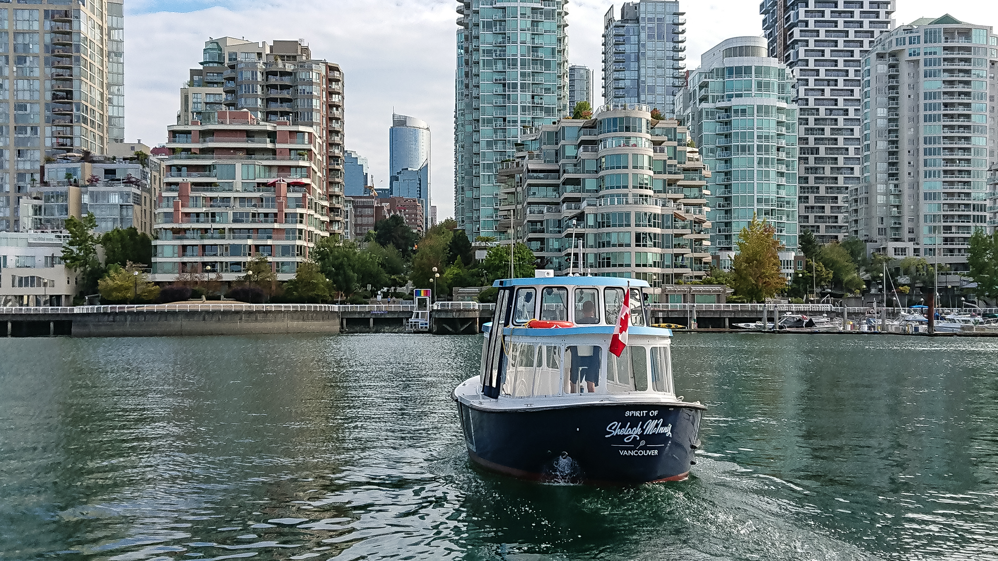 Water taxi and small ferry, Spirit of Shelagh McInnis, of False Creek Ferries heading from Granville Island across to Stamp’s Landing in Yaletown in Vancouver, BC Canada on September 2, 2018.